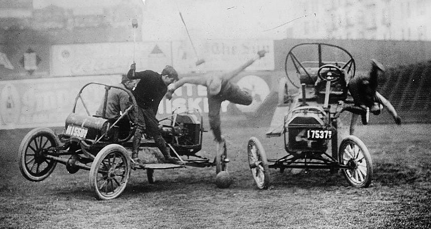 Bain News Service,, publisher. Auto polo [between ca. 1910 and ca. 1915] 1 negative : glass ; 5 x 7 in. or smaller. Notes: Title from unverified data provided by the Bain News Service on the negatives or caption cards. Forms part of: George Grantham Bain Collection (Library of Congress). Format: Glass negatives. Repository: Library of Congress, Prints and Photographs Division, Washington, D.C. 20540 USA, General information about the Bain Collection is available at Persistent URL: Call Number: LC-B2- 2473-9